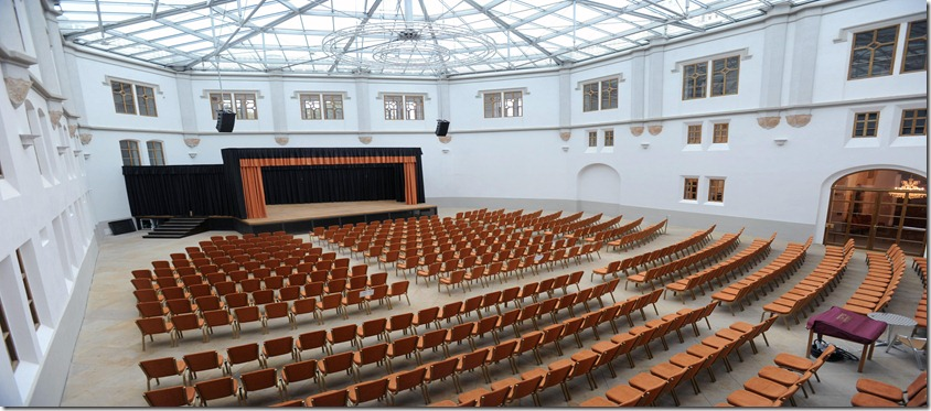 THE CONCERT ARENA OF CASTLE NEW SVETLOV